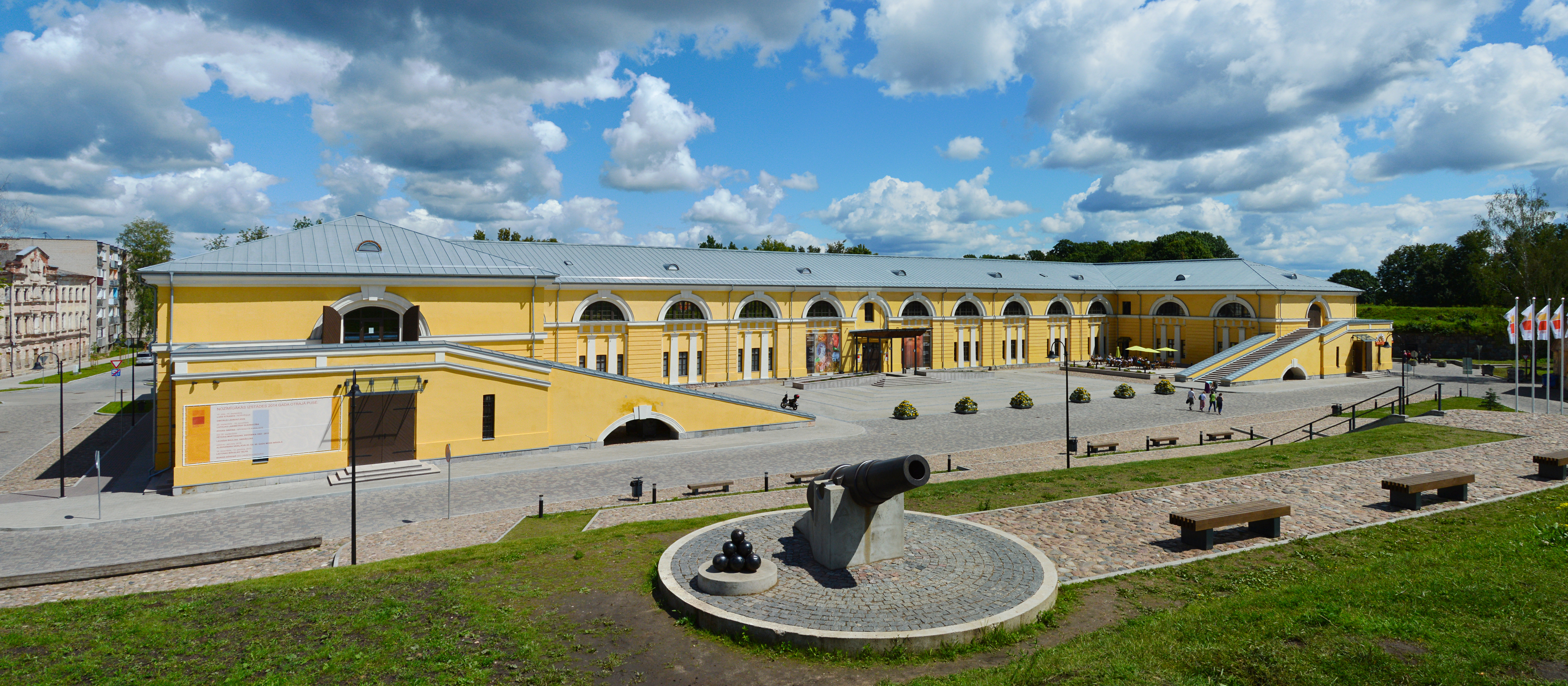 Building No. 27, artillery arsenal Daugavpils, Mikhail Street 3Latviešu: Ēka Nr. 27 Artilērijas arsenāls, Daugavpils, Mihaila iela 3